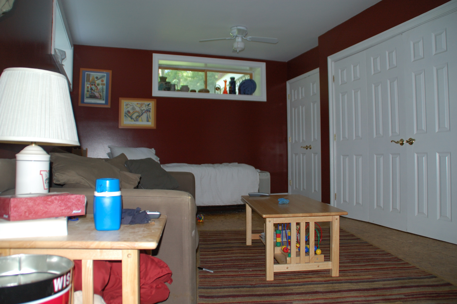 This basement bonus room in Hawthorn Beach near Candlewood Lake (Connecticut) serves as both a den and a guest bedroom.